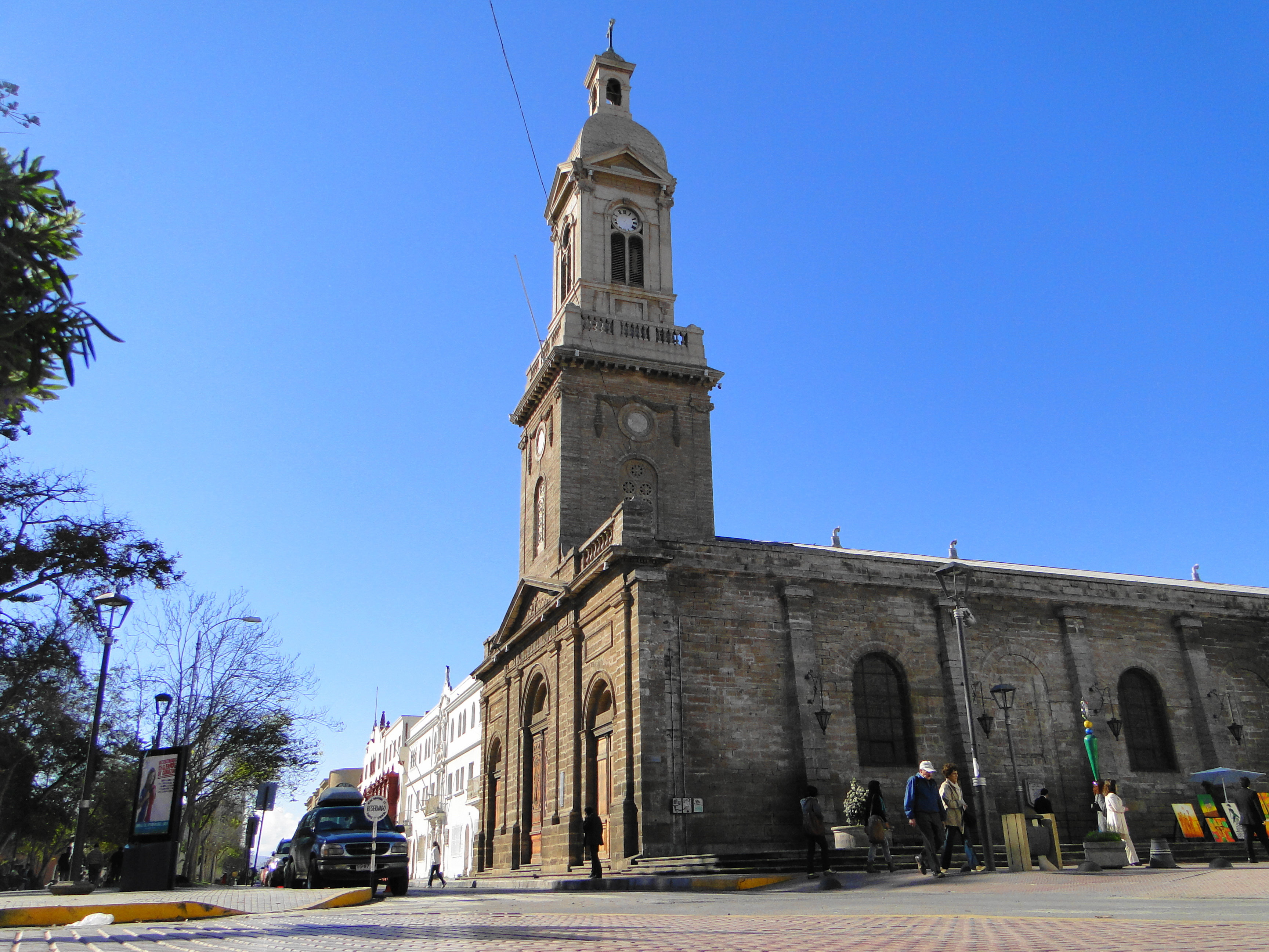 This is a photo of a national monument in Chile: 344